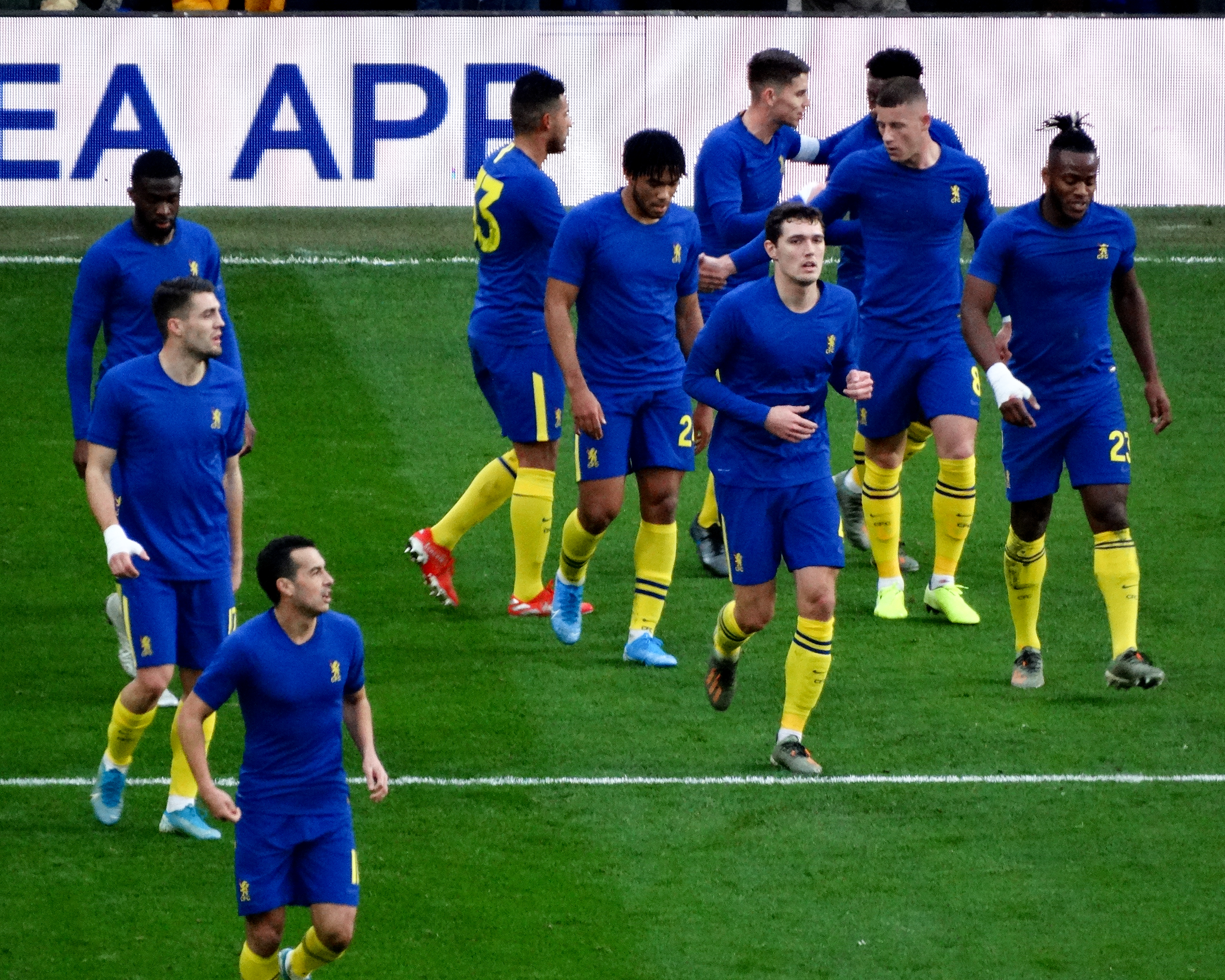 London (England), Stamford Bridge, January 5, 2020. Chelsea F.C. — Nottingham Forest F.C. 2-0, 3rd round of 2019–20 FA Cup: Chelsea's anniversary shirt commemorating 50 years since their first FA Cup triumph, inspired by the 1970 final jersey.